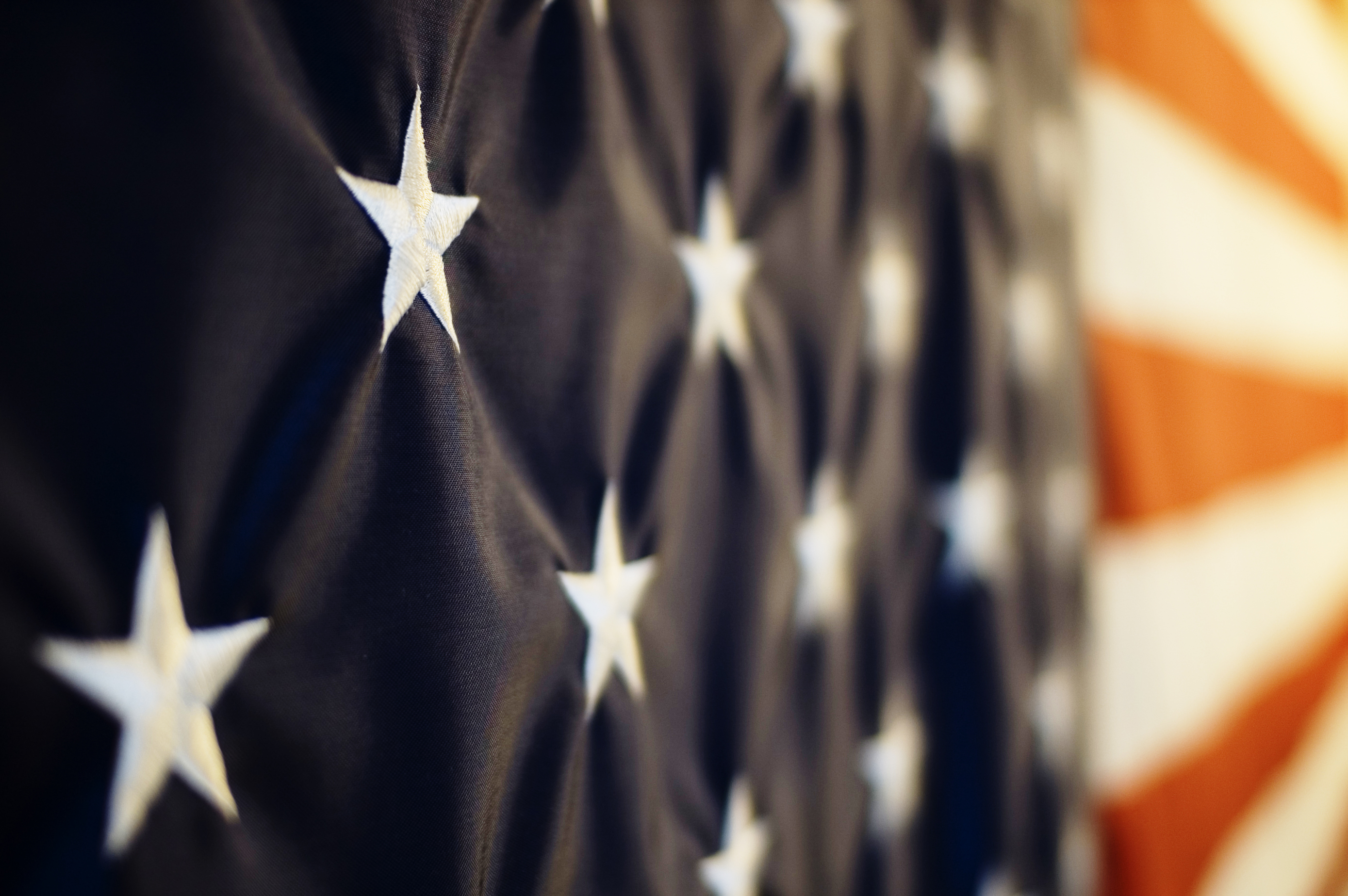 The U.S. flag from close up and at an angle.